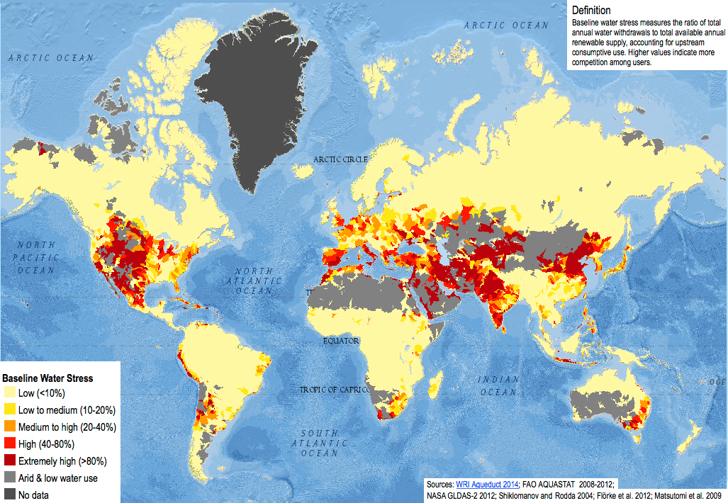 Ratio of total annual water withdrawals to total available annual renewable supply, accounting for upstream consumptive use. Source: World Resources Institute